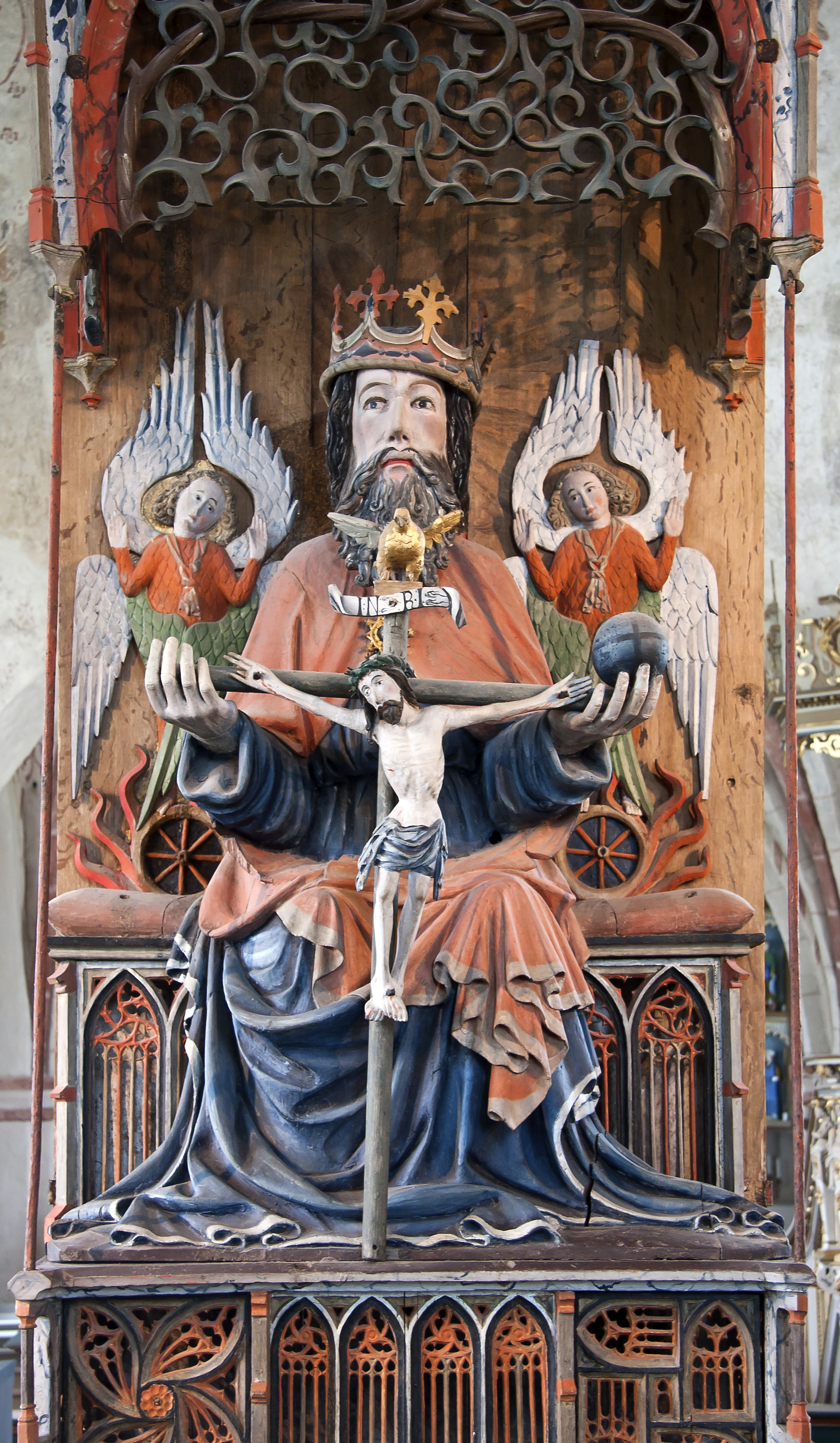 Statue of the holy Trinity in Sankt Olofs kyrka ("Church of Saint Olav") in the village Sankt Olof, Sweden.